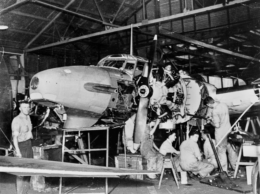 Aircraft mechanics working on an Avro Anson Mk1 plane, Archerfield, ca. 1942. Mechanics of Aircrafts Pty. Ltd. in their Archerfield hangar repairing service aircraft during World War II. They are working on a Cheetah engine. (Description supplied with photograph).